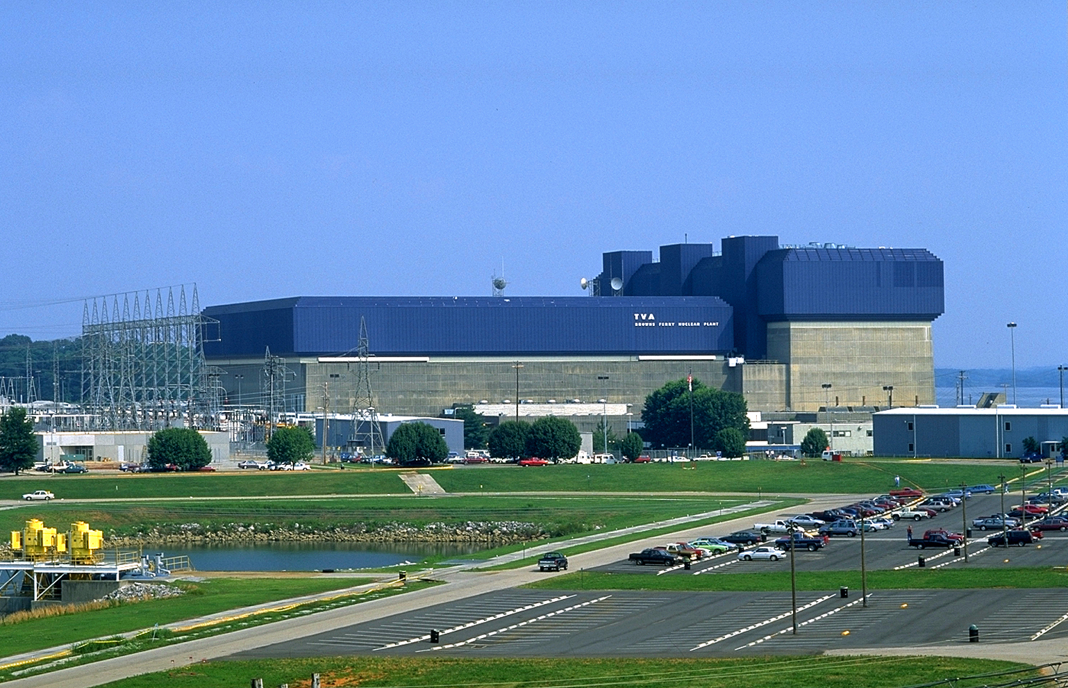 Browns Ferry Nuclear Power Plant.